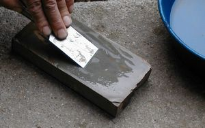 Japanese whetstone